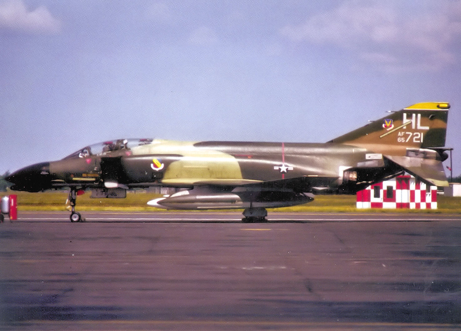 4th Tactical Fighter Squadron McDonnell F-4D-28-MC Phantom 65-0721, Hill AFB, Utah, 1978